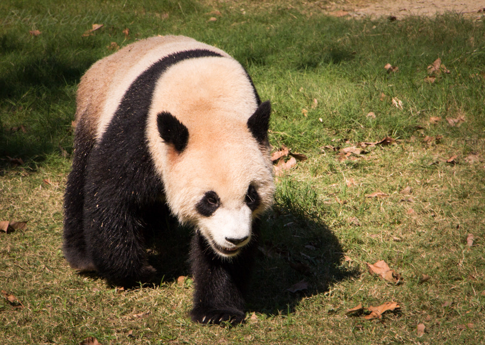 500px provided description: She Walked Away Disappointed